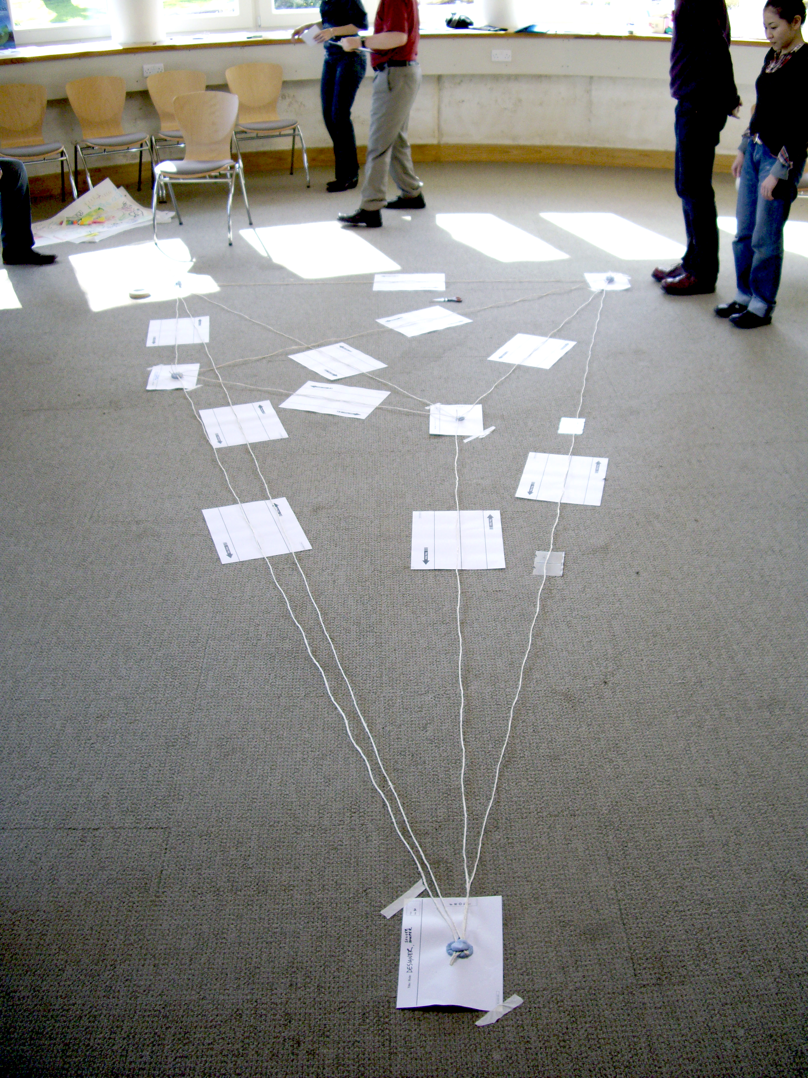 Mapping team relations by marking out where individuals stood in relation to the others - at the Pines Calyx 2-day metadesign workshop on 19th Feb and 1st March 2008